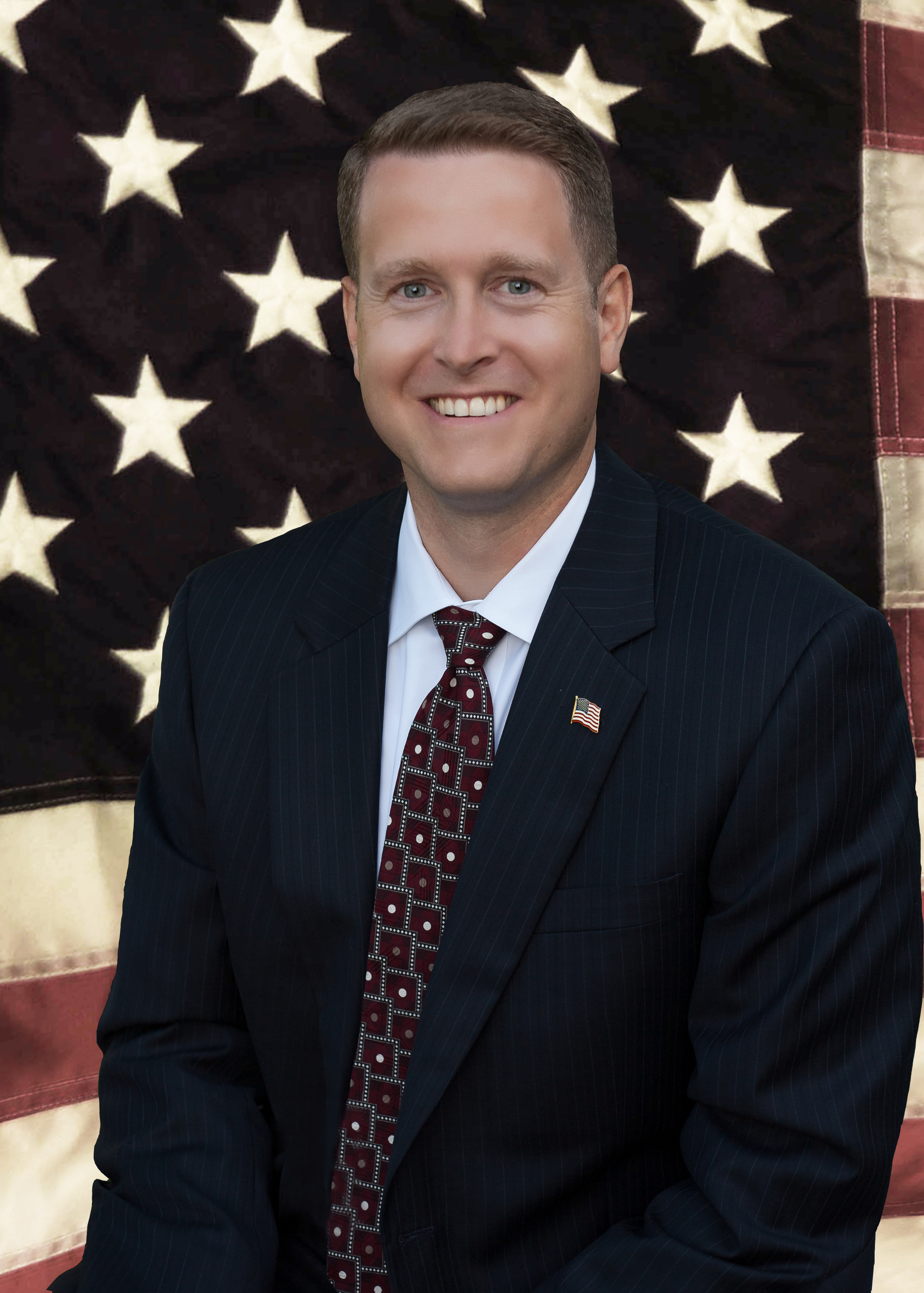 Picture of Matt Shea, representative for Washington's 4th Legislative District.